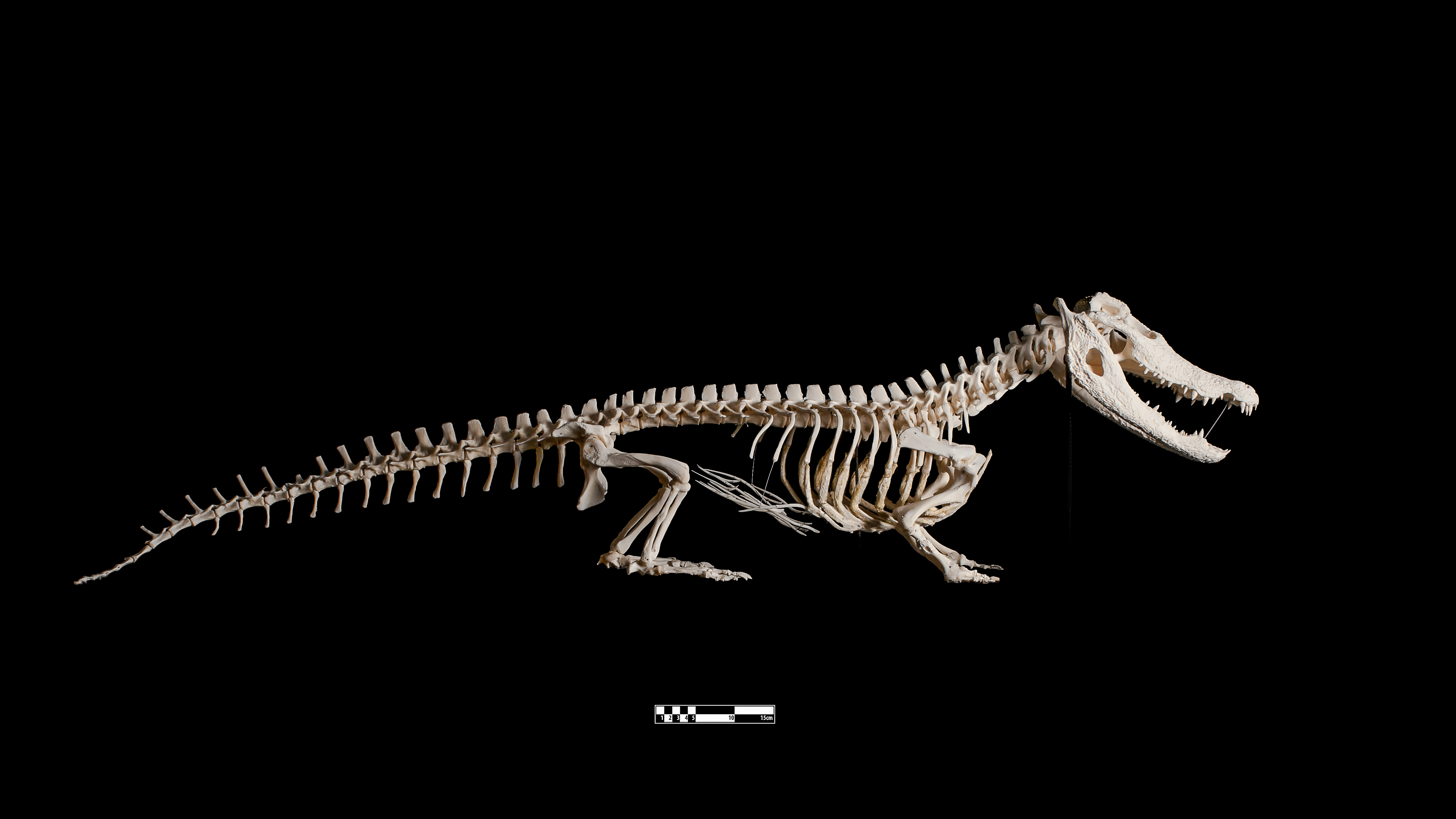 Technique of bone maceration on display at the Museum of Veterinary Anatomy, FMVZ USP